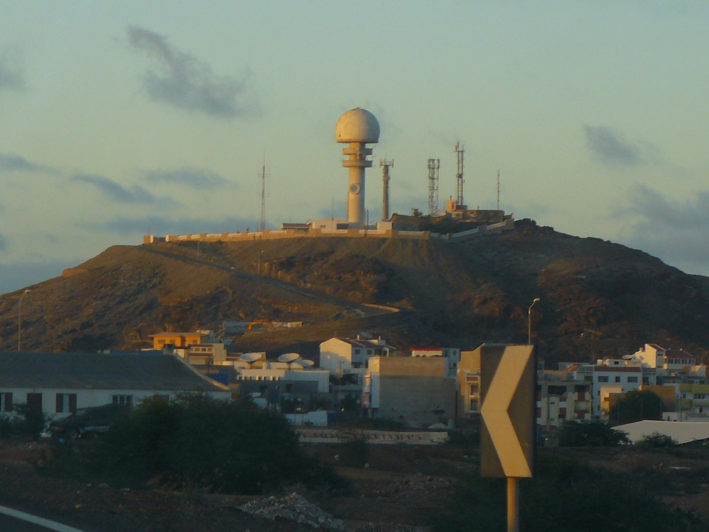 Radar tower on top of the Morro Curral hill in Espargos, Sal island, Cape Verde. Used by the local airport.